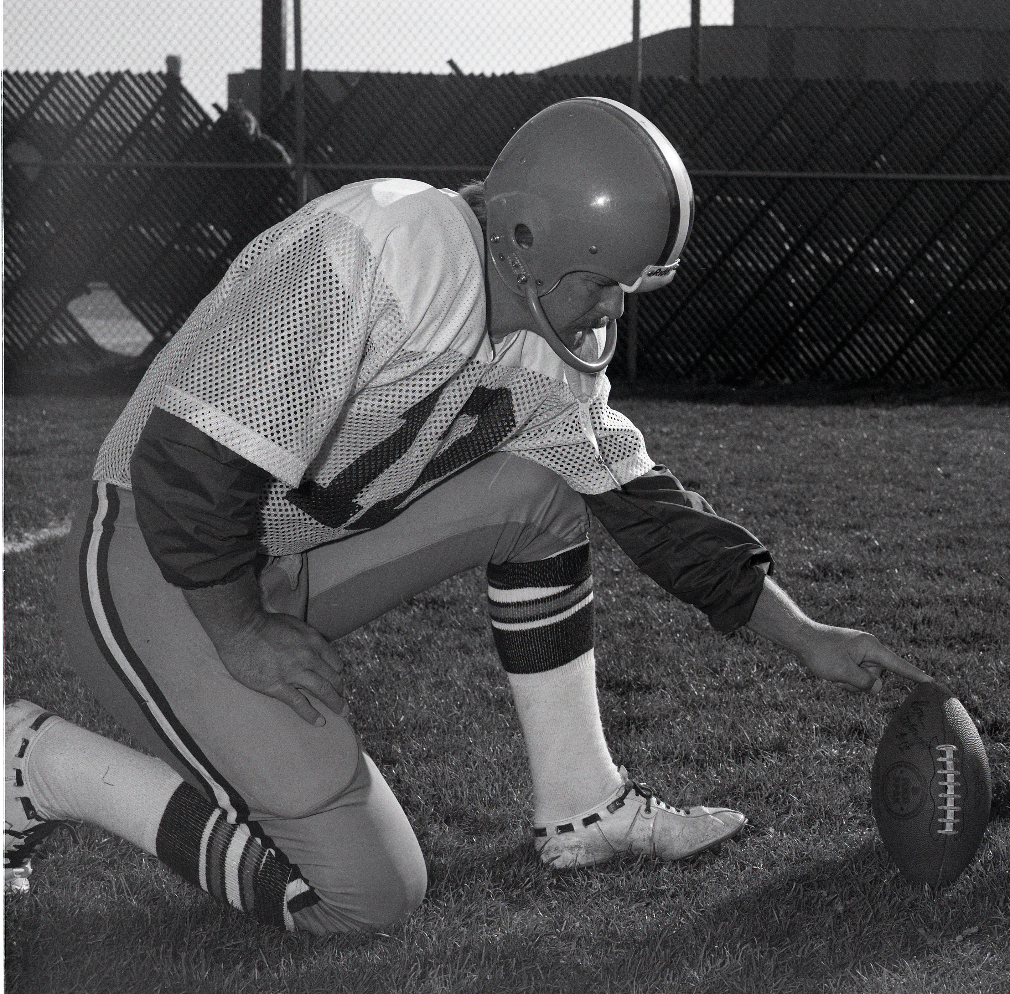 SON OF JOSEPH GABY WITH CLEVELAND BROWNS NATIONAL FOOTBALL LEAGUE NFL KICKER DON COCKROFT (left)